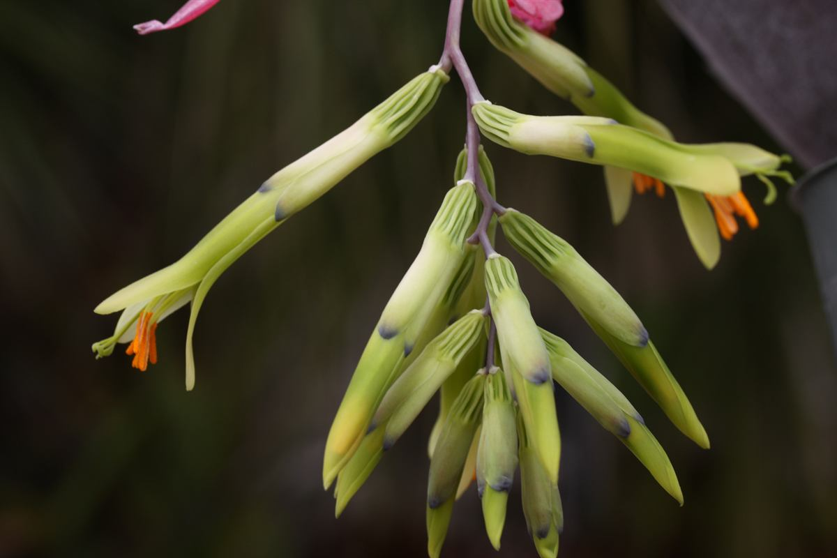 Billbergia distachya flowers